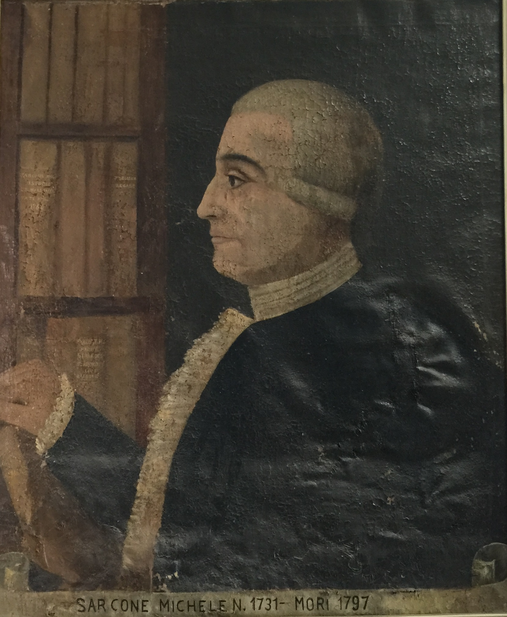 Ritratto di Michele Sarcone